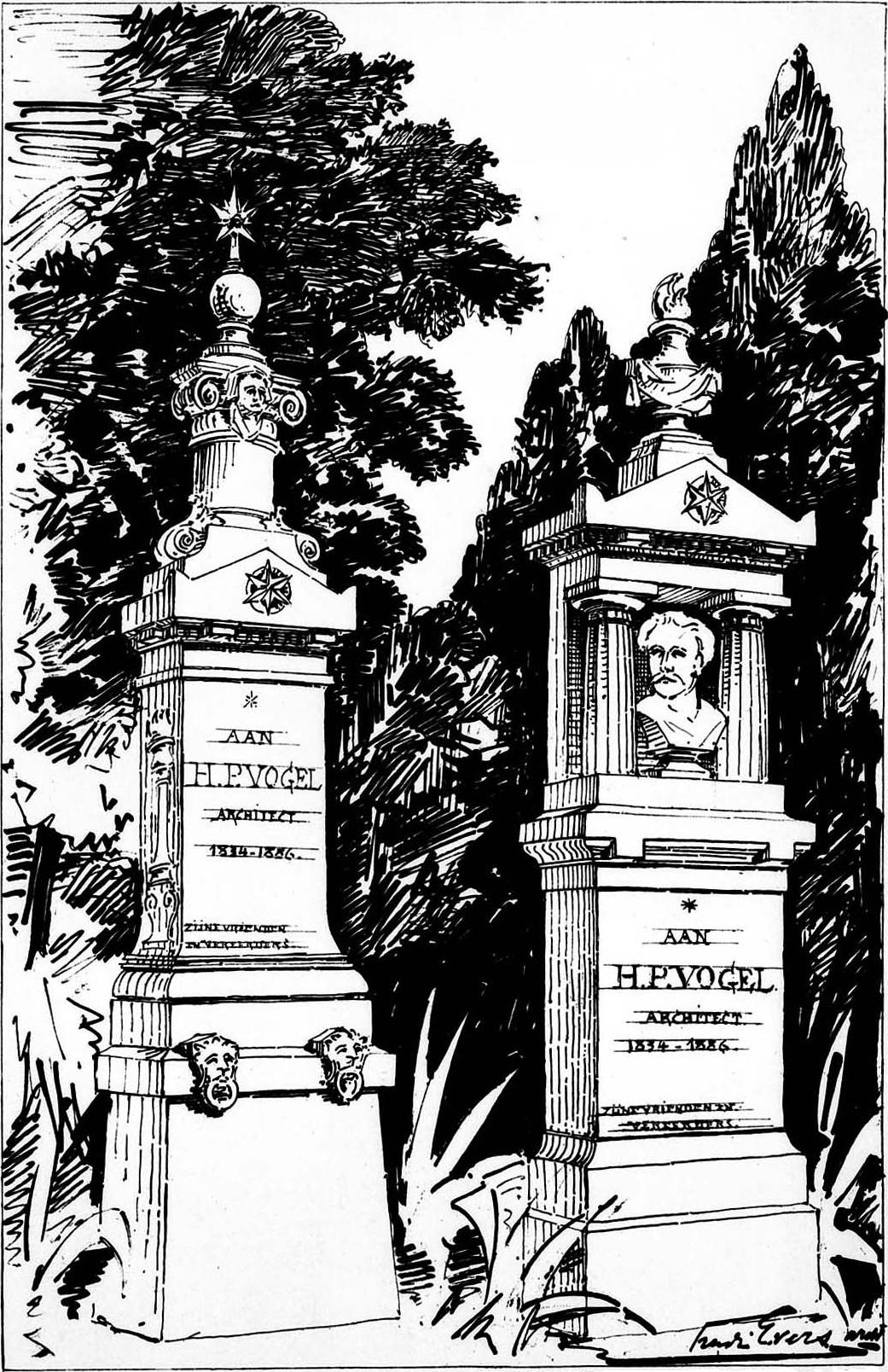 Memorial stones to Hugo Pieter Voge.